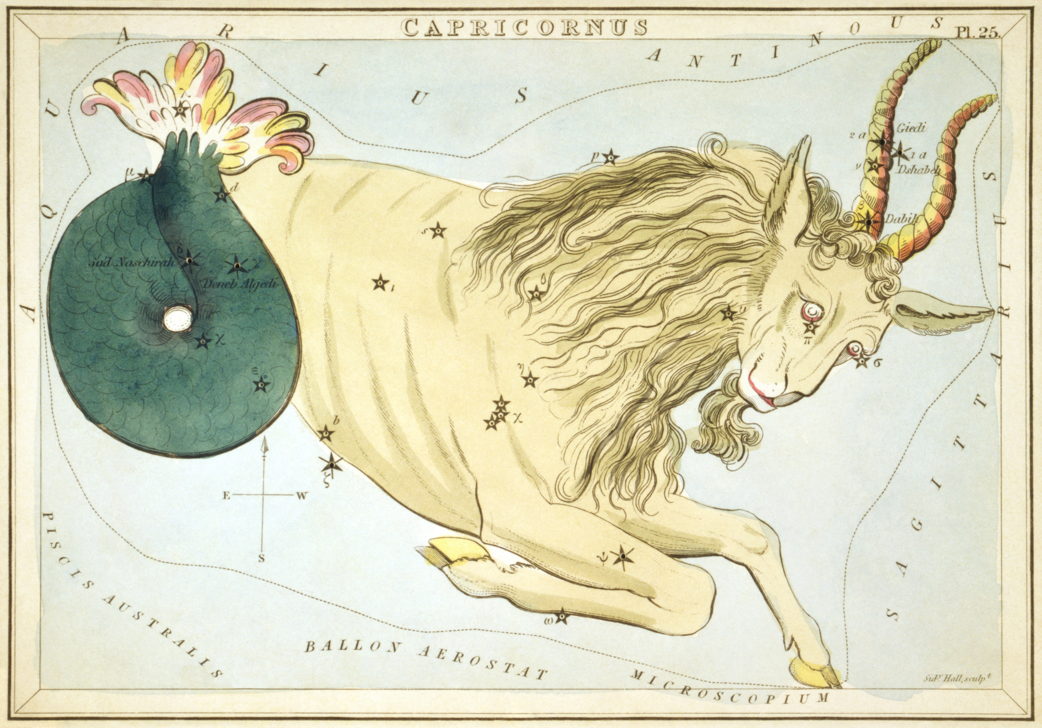 "Capricornus", plate 25 in Urania's Mirror, a set of celestial cards accompanied by A familiar treatise on astronomy ... by Jehoshaphat Aspin. London. Astronomical chart, 1 print on layered paper board : etching, hand-colored.